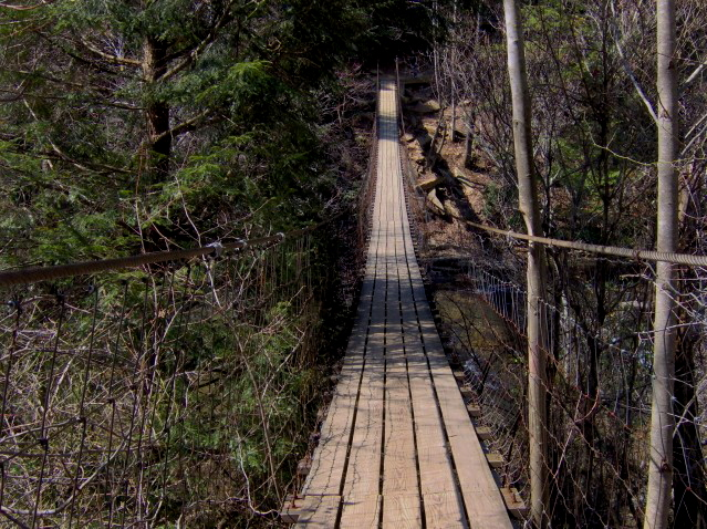 Swingbridge at Fall Creek Falls State Park, located in the Southeastern United States. The bridge crosses Cane Creek between Cane Creek Cascades and Cane Creek Falls.